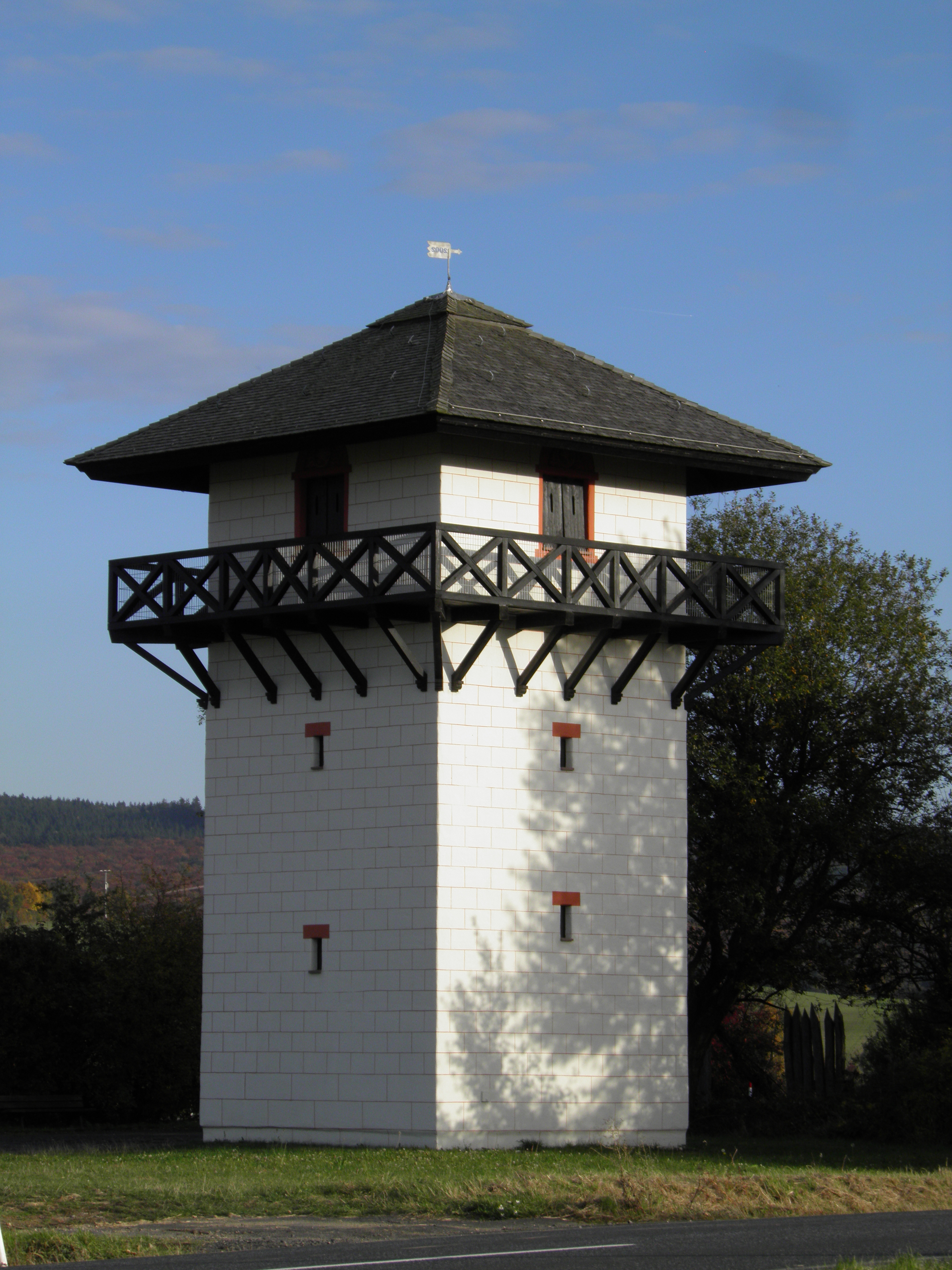 Limes WP 3/26, The reconstructed watchtower of Idstein Dasbach, one of the most original replicas of the Limes, built in 2002